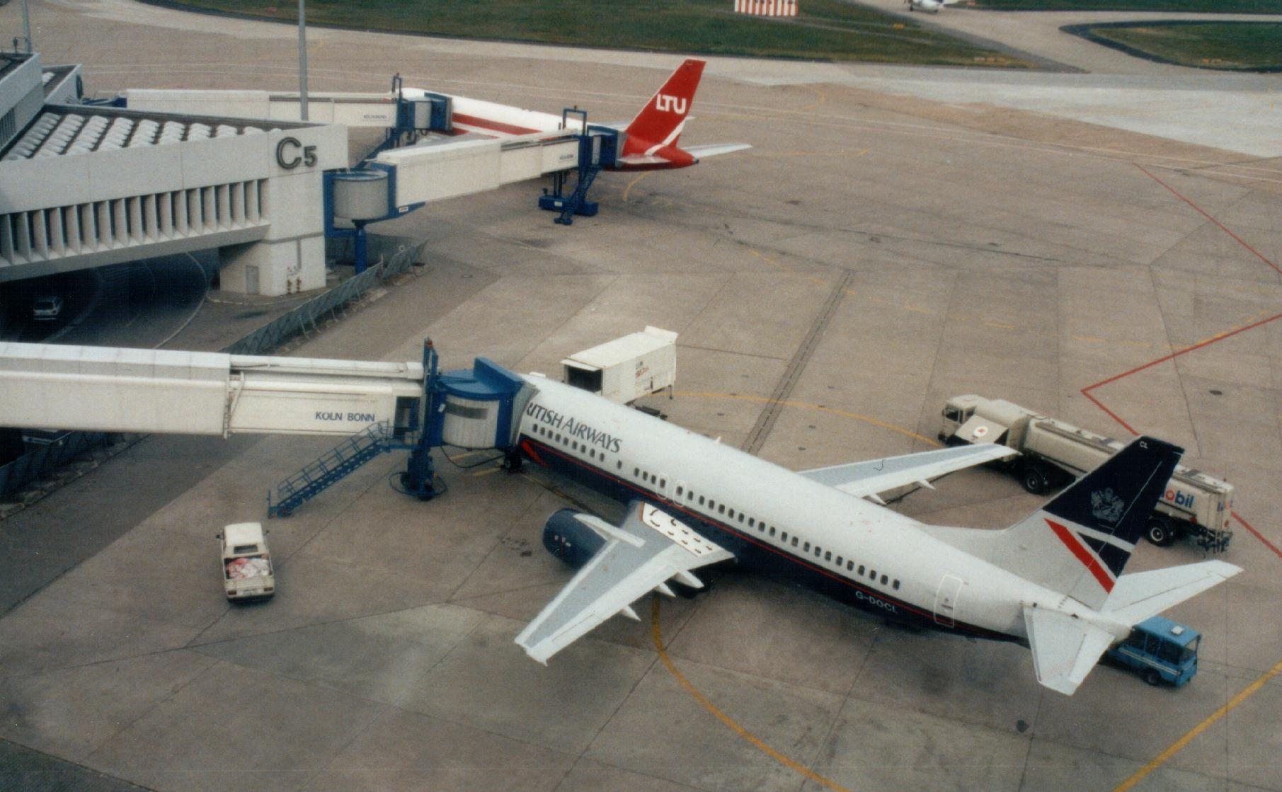 Cologne Bonn Airport – Terminal C5.